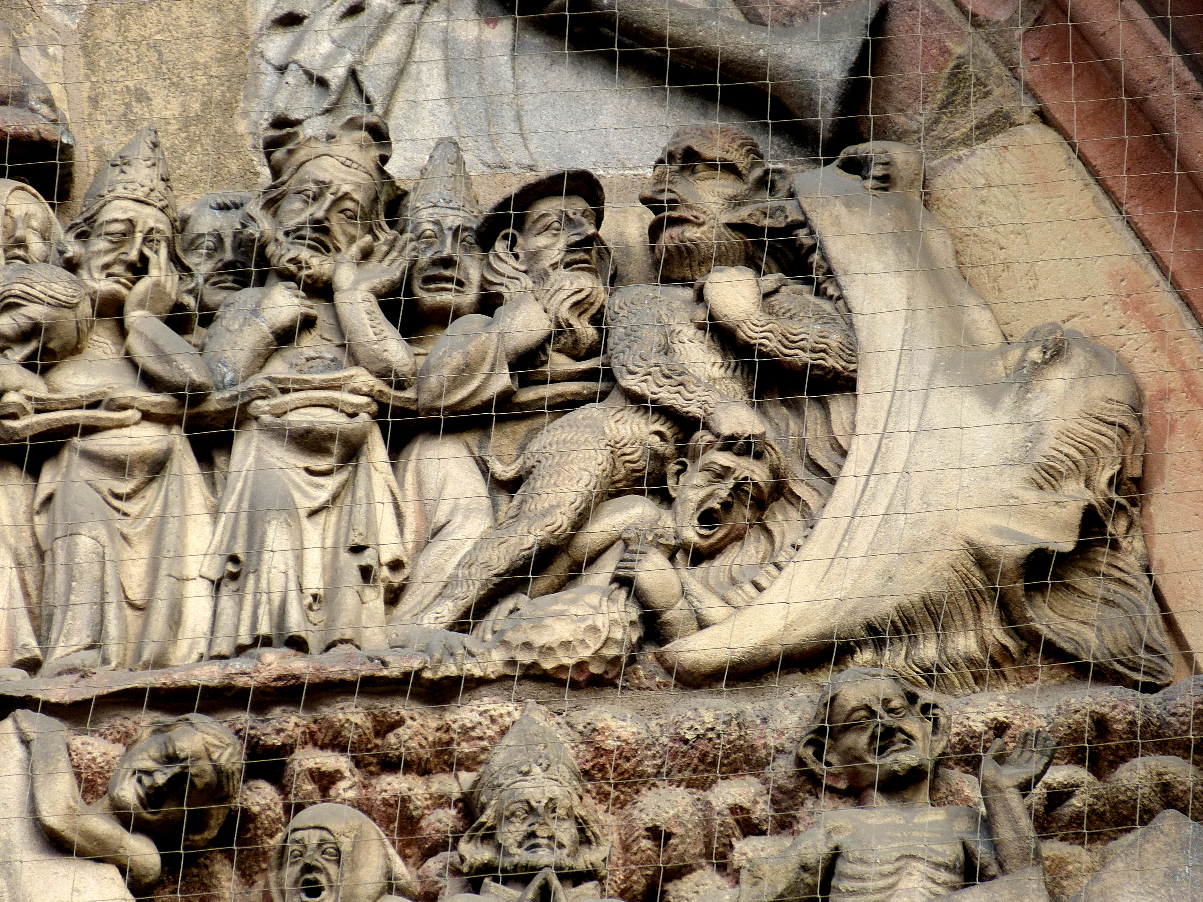 Nuremberg ( Middle Franconia ). Saint Lawrence parish church: Western portal ( 1340s ) - Last Judgment: Condemned going to hell.